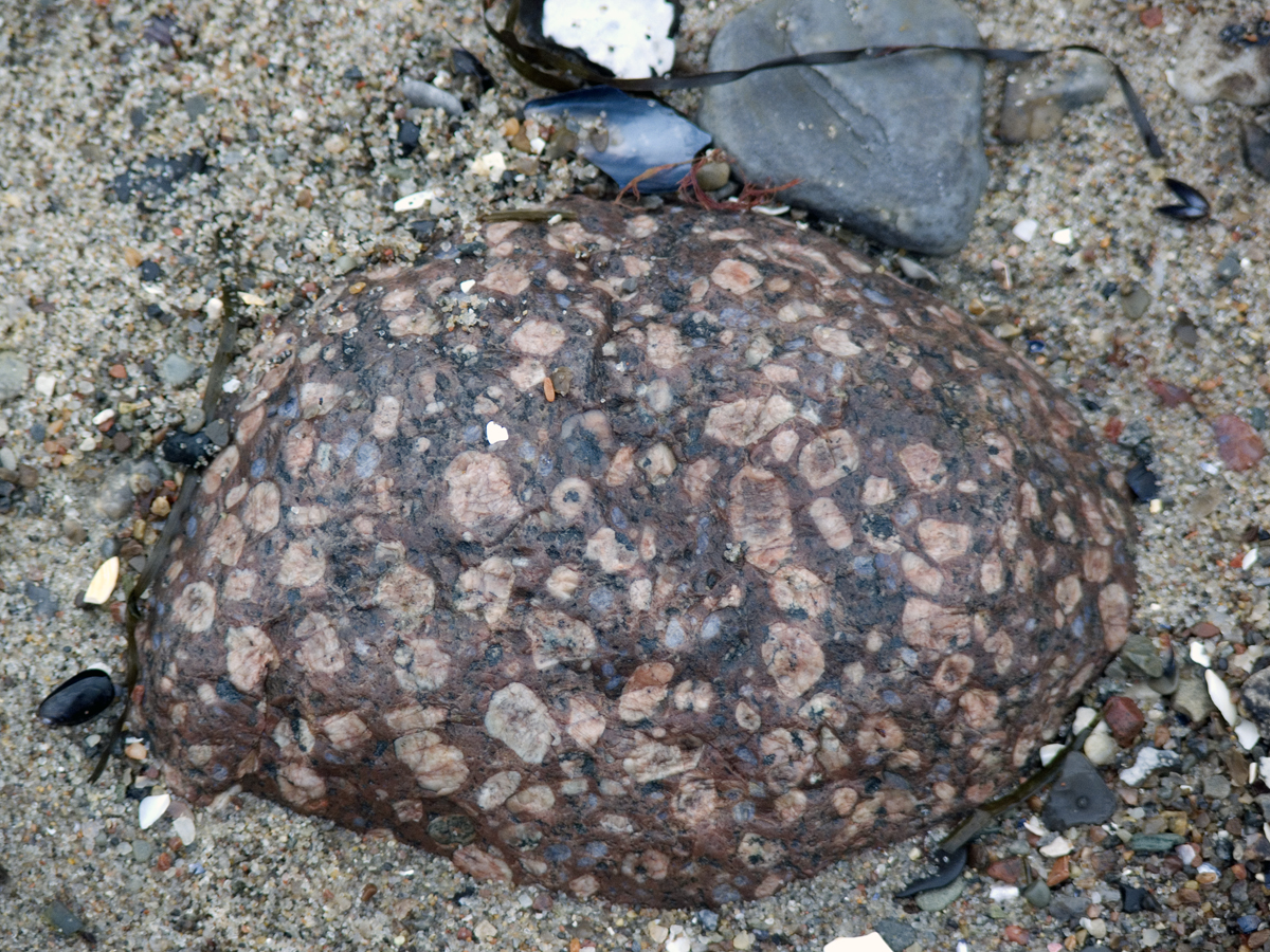 Paskallavik Porphyry, originally from Sweden, found on the southern coast of the Baltic Sea near Rerik, Mecklenburg-Vorpommern, Germany.